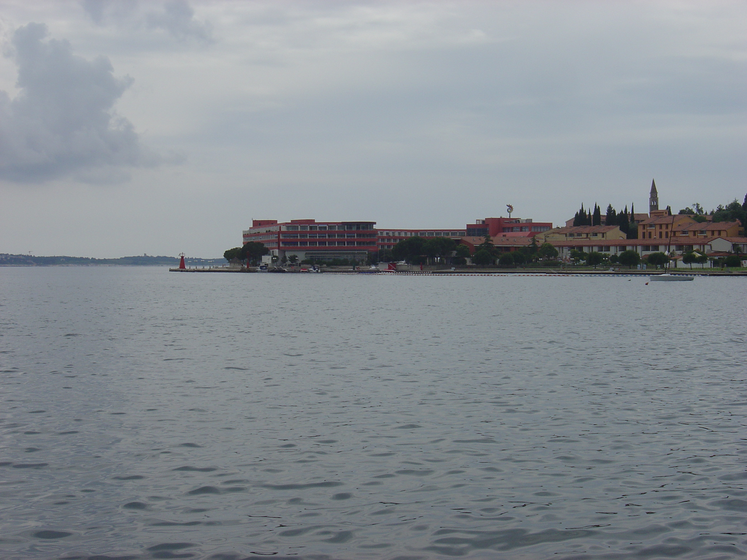 Portorož, Slovenia